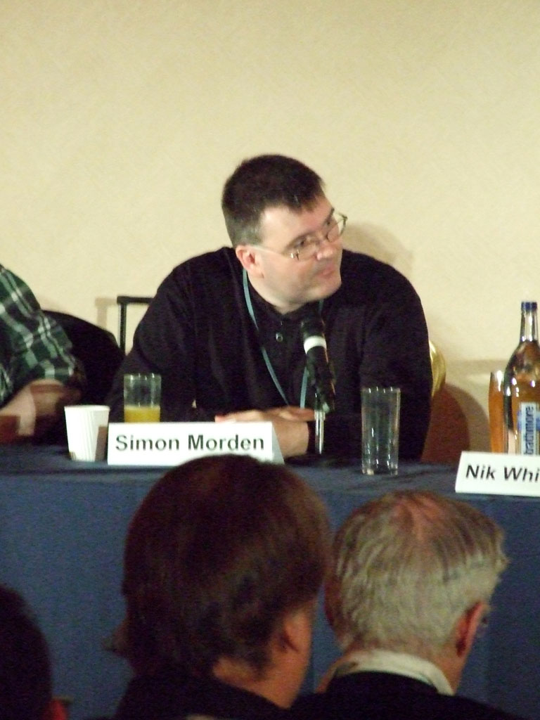 Simon Morden at the 2011 Illustrious science-fiction convention.